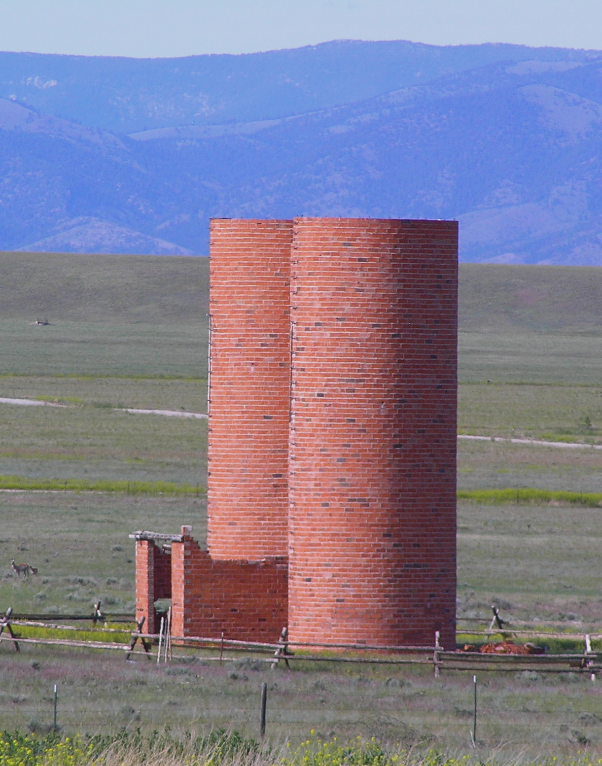 "The Silos" as seen from Silo Rd near Townsend, MT